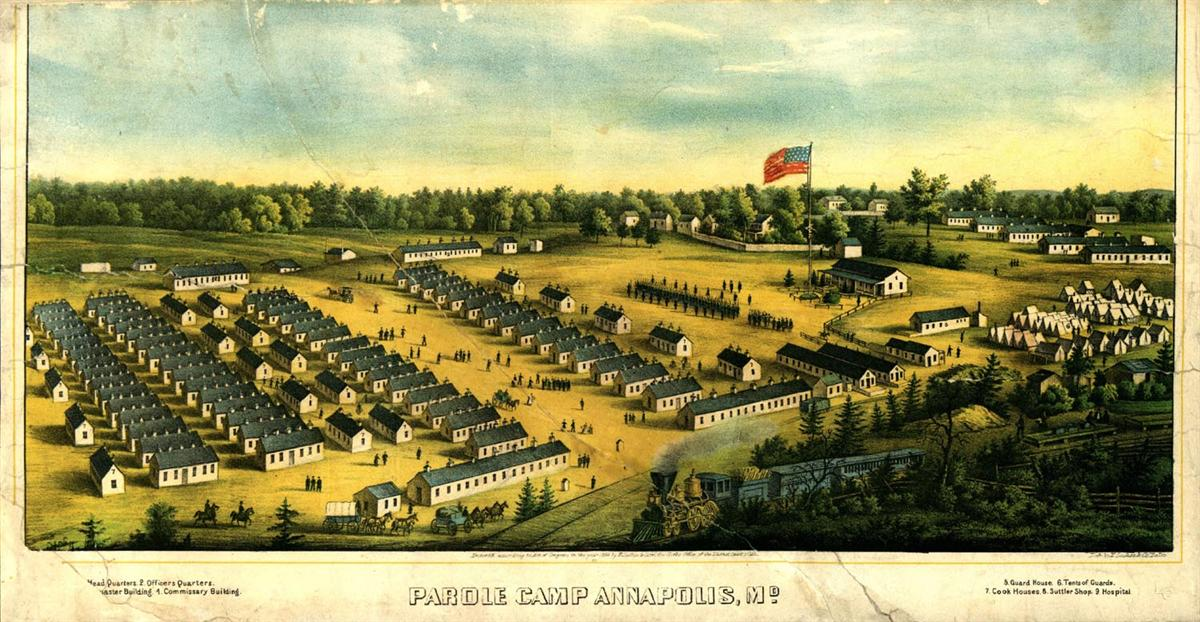 Historic map of Parole Camp Annapolis. E. Sachse & Co. . CREATED/PUBLISHED Balt[im]o[re] : Lith. by E. Sachse & Co., [1864] NOTES Bird's-eye view. "Entered according to Act of Congress in the year 1864 by E. Sachse & Co. in ... the District Court of Md." Includes index to points of interest.